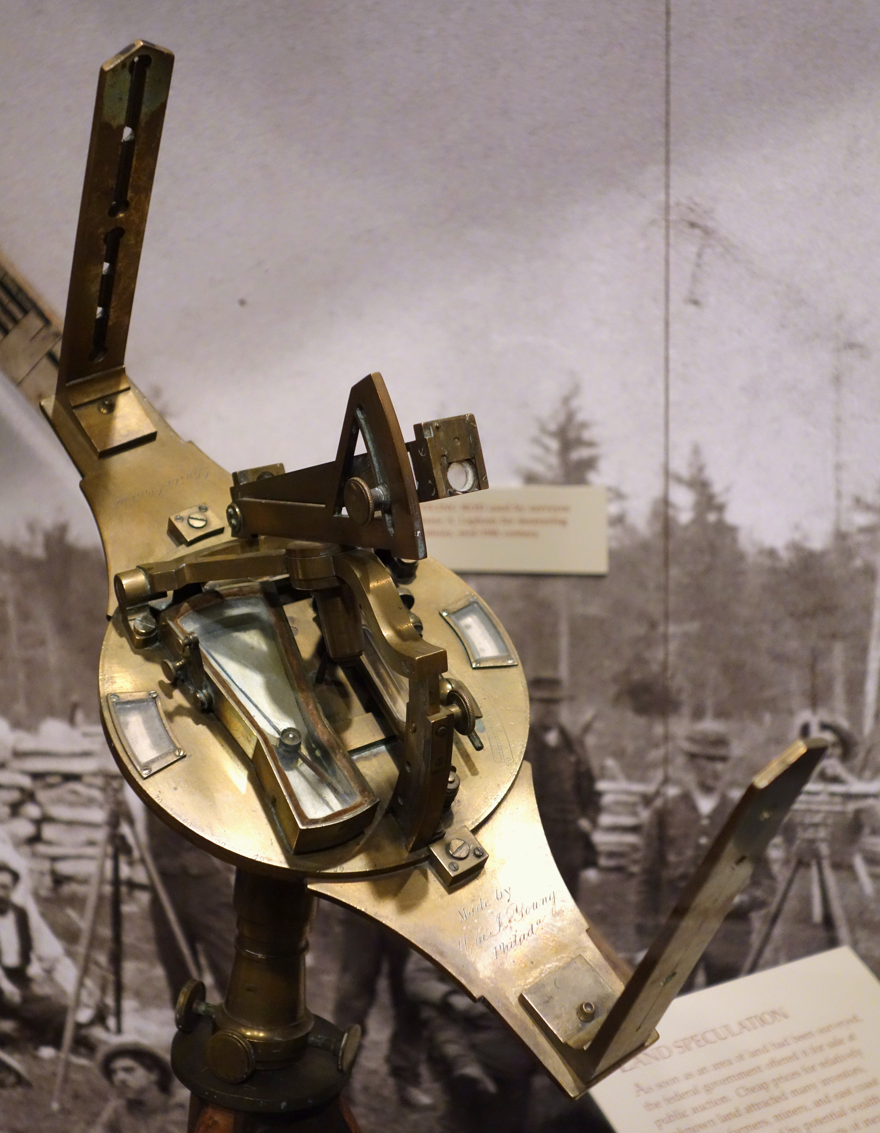 Exhibit in the Wisconsin Historical Museum, Madison, Wisconsin, USA. This item is old enough so that it is in the public domain.